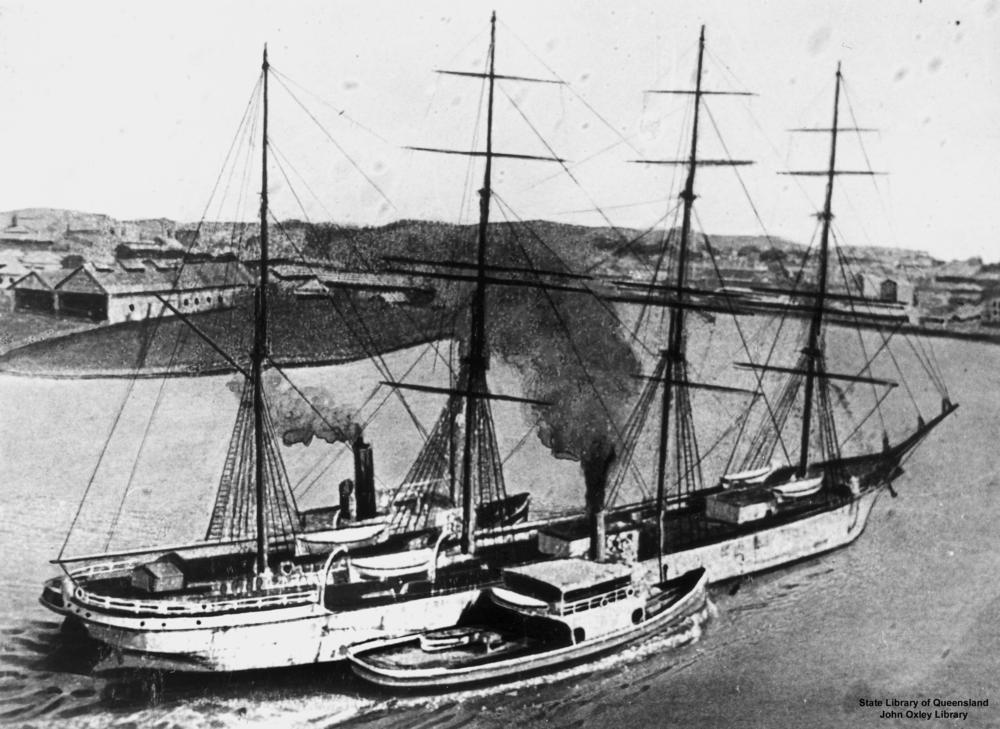 Craigerne (ship)